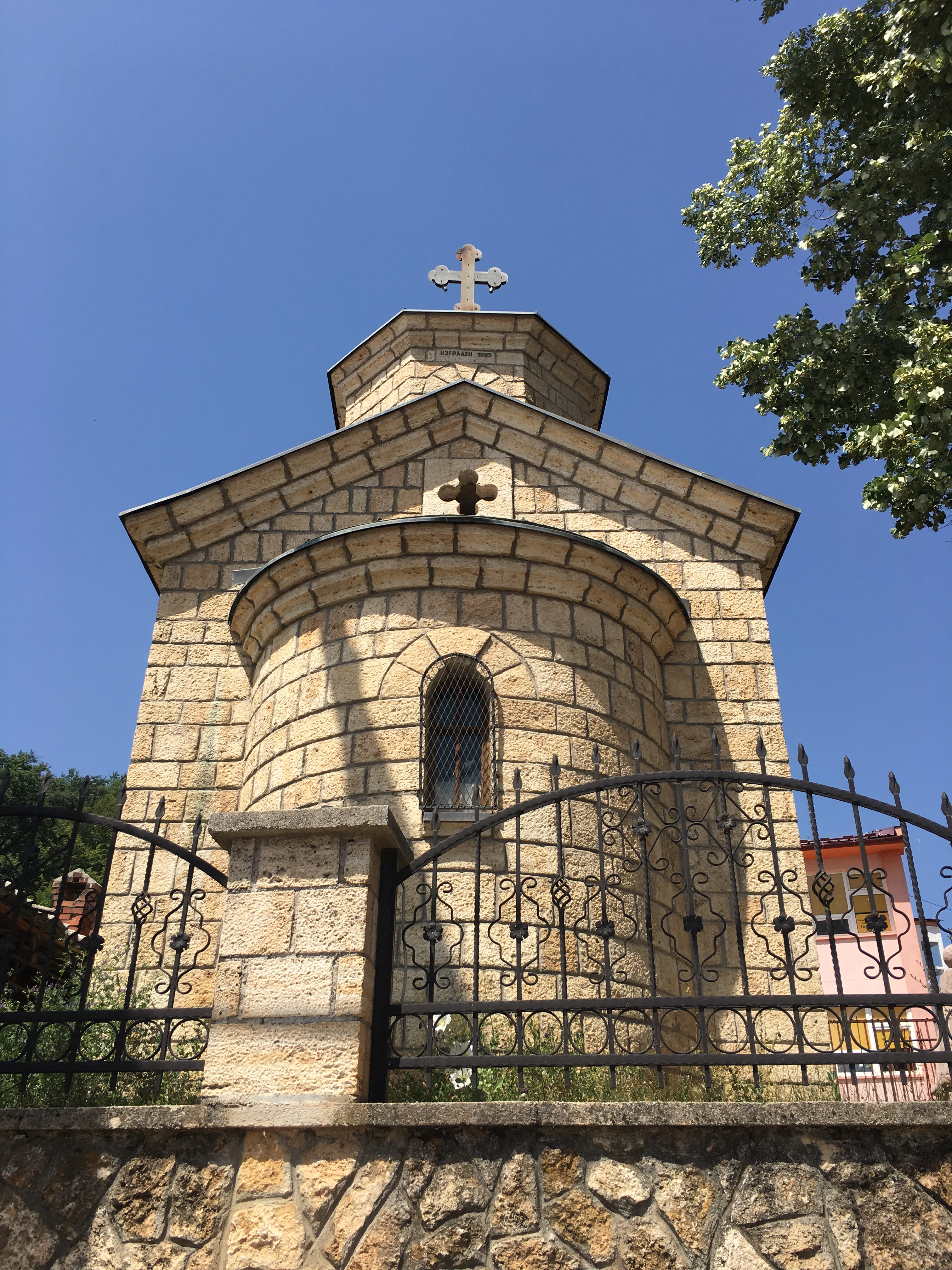 Church of the Presentation of the Theotokos in the village of Podgorci